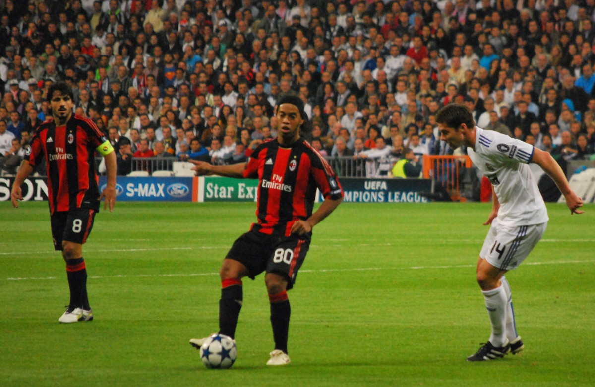 Gennaro Gattuso, Ronaldinho and Xabi Alonso during Real Madrid CF-AC Milan, 2010–11 UEFA Champions League